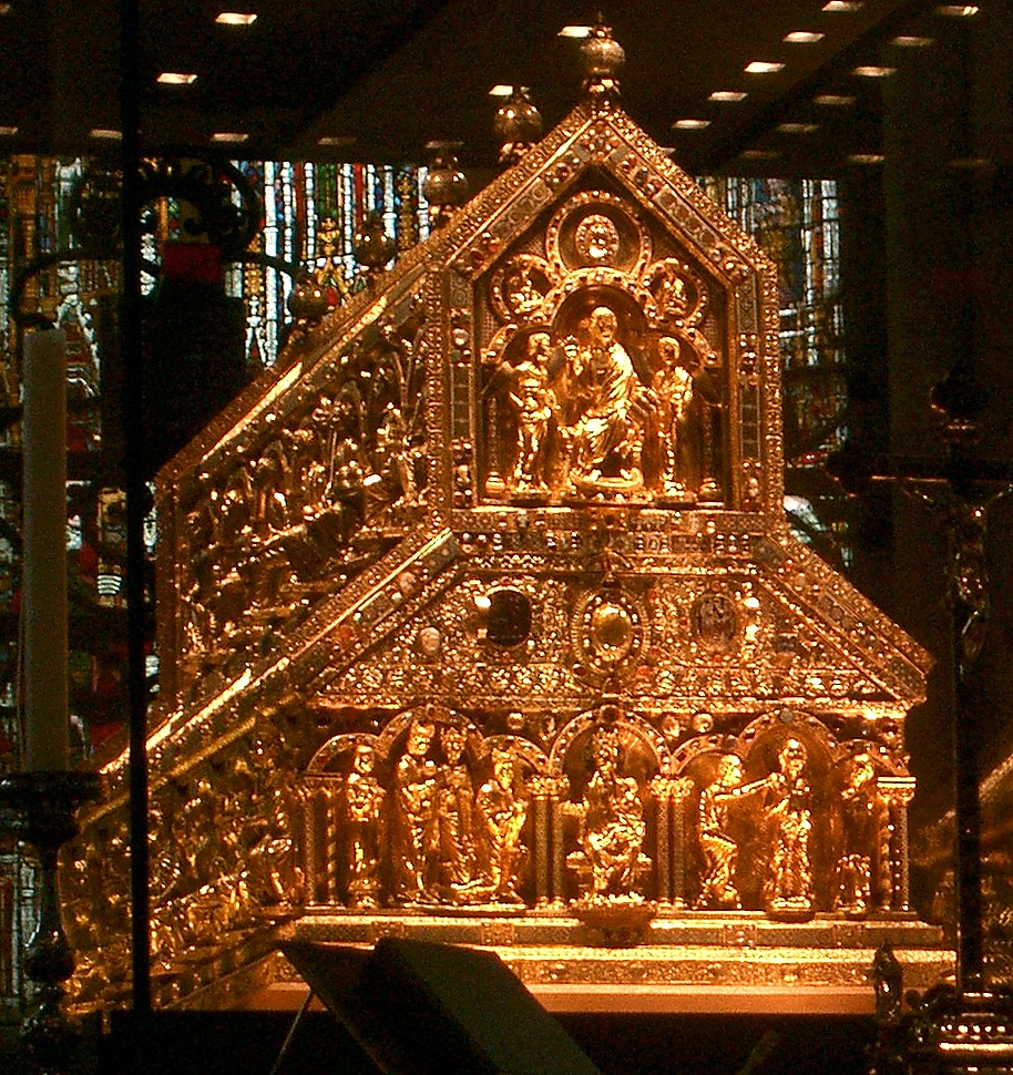 Cologne Cathedral, Germany. Street address: Domkloster 4 Shrine of the Three Magi, created around 1181-1230 by Nicholas of Verdun.